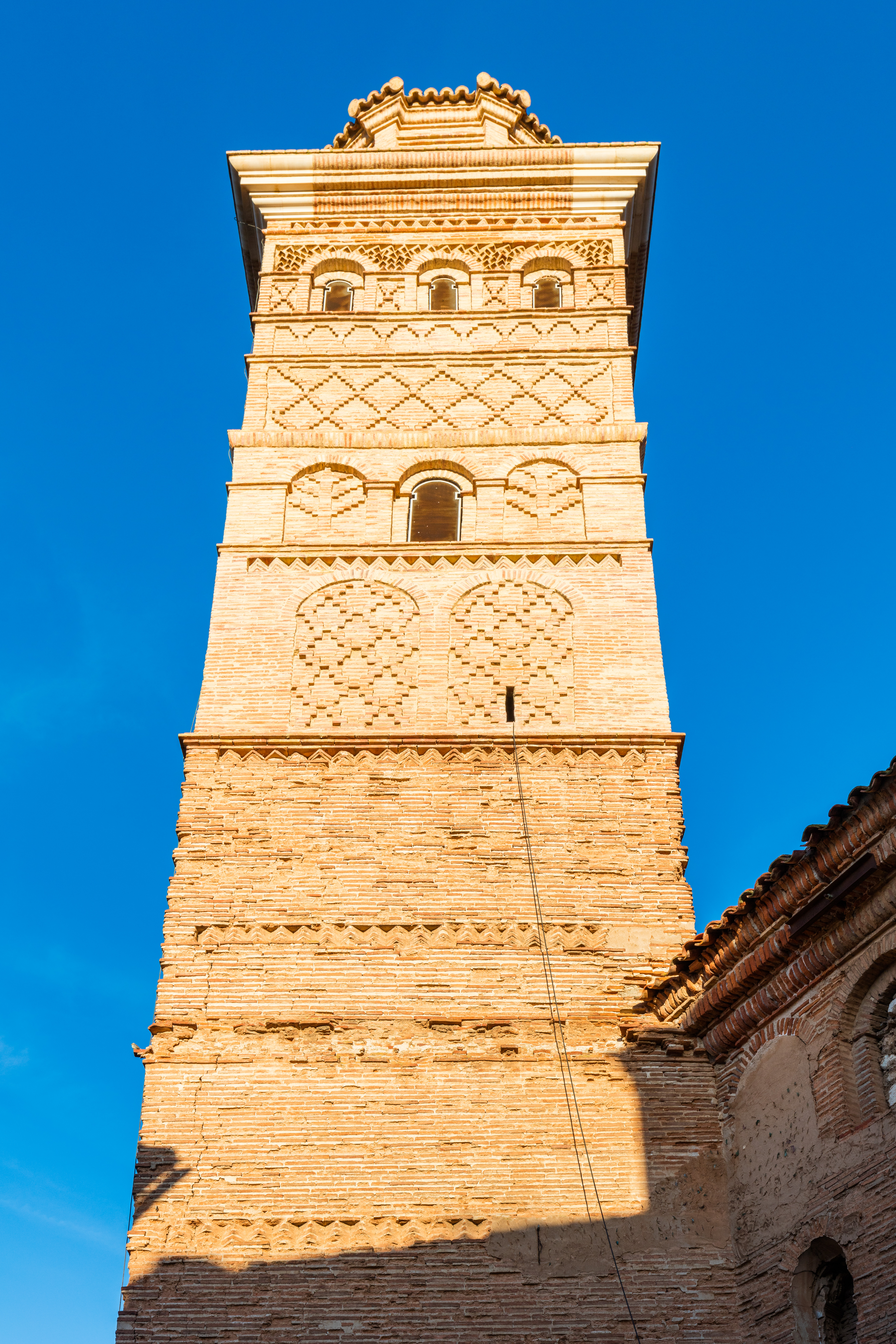 Church of James the Greater, Orera, Zaragoza, Spain